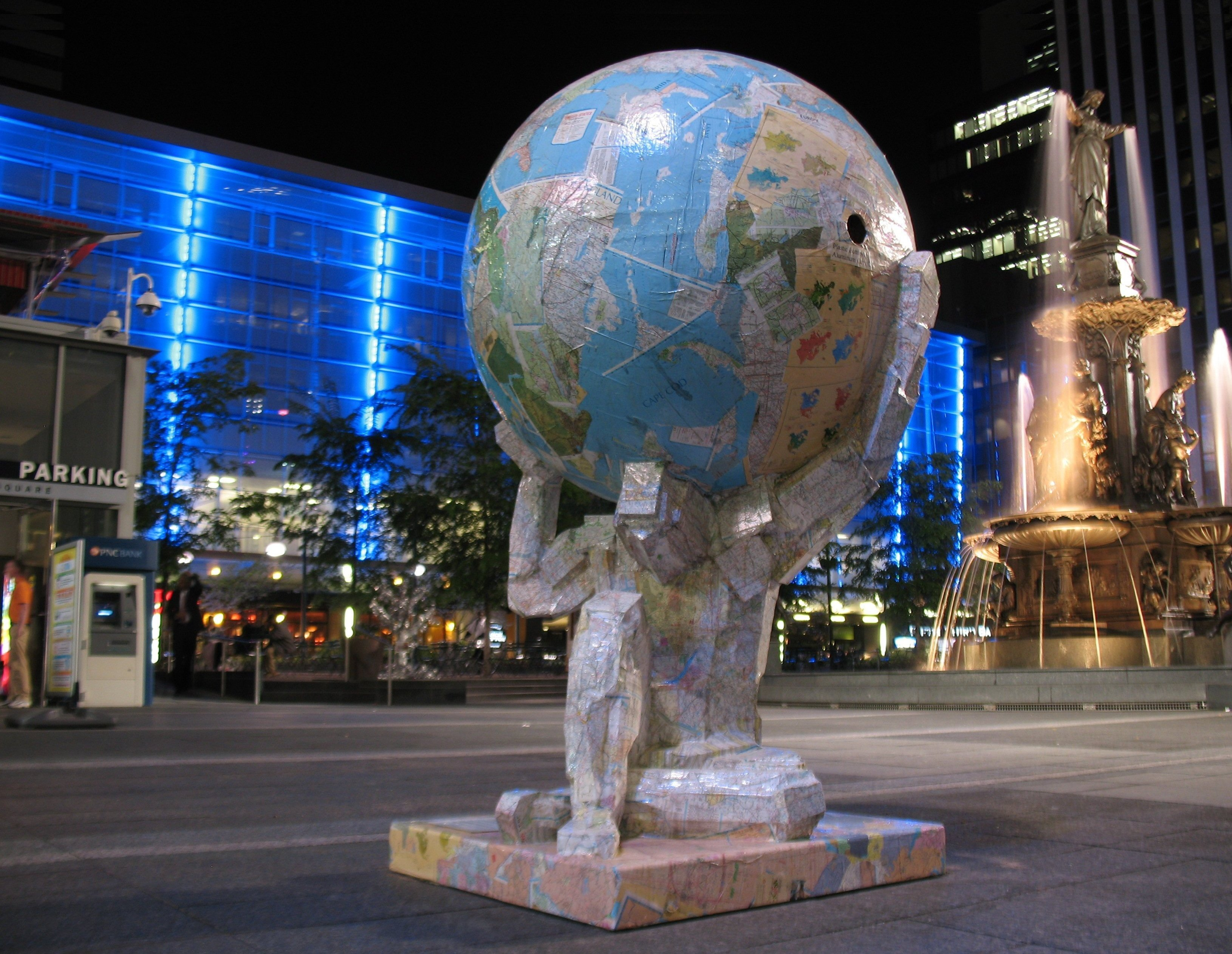 "Atlas Recycled" by Tom Tsuchiya is a sculpture made of atlases and maps that serves as a recycling receptacle for bottles and cans.